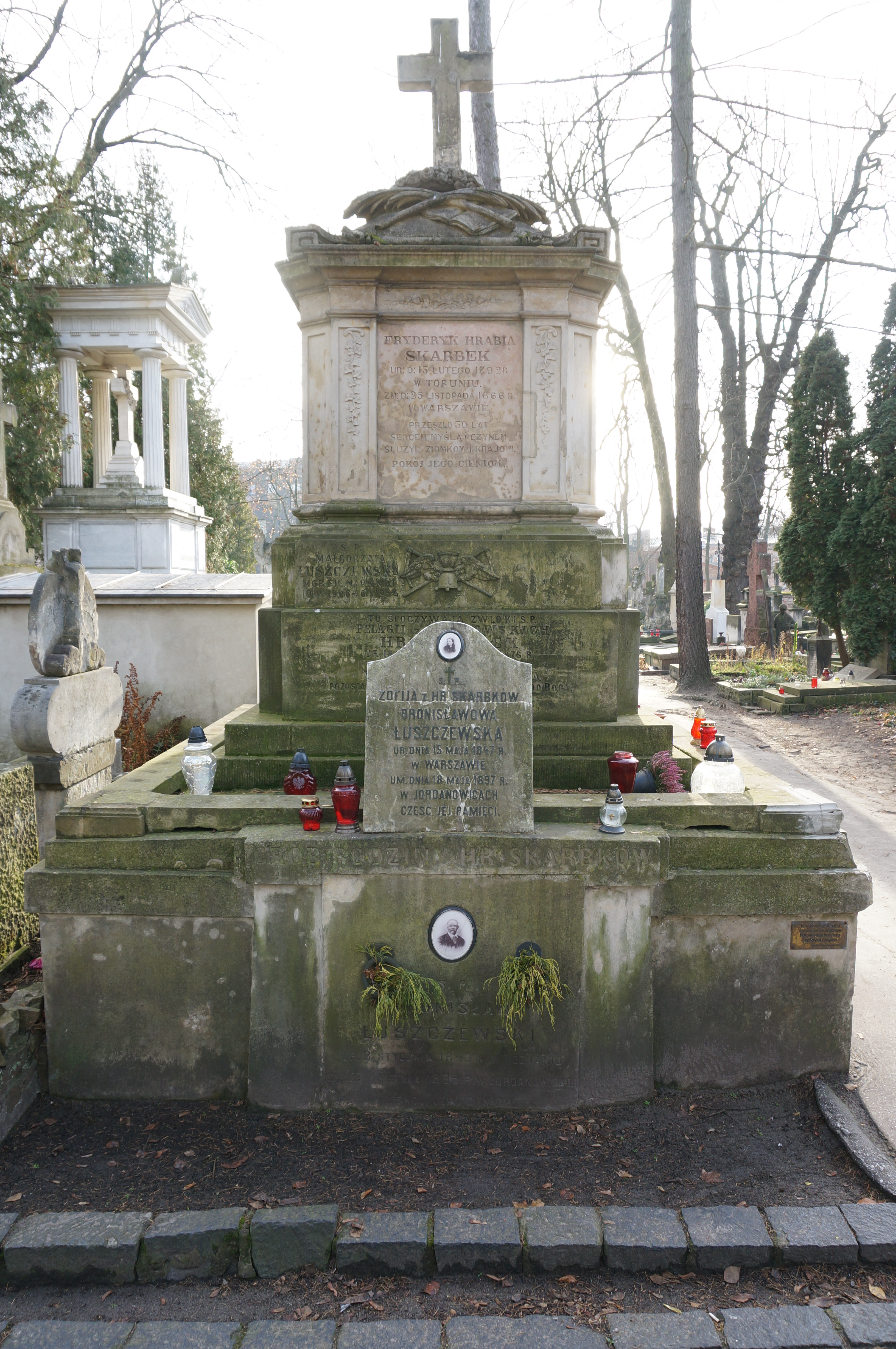 The grave of Fryderyk Skarbek at the Powązki Cemetery (section 173, row 6, grave 1, 2)